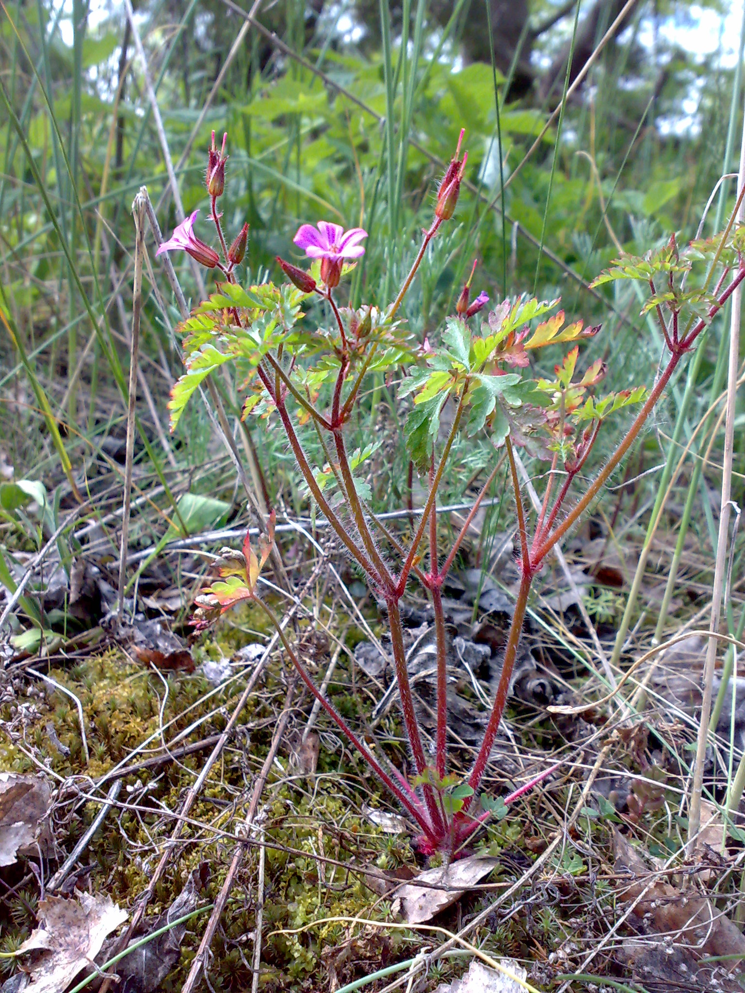 Geranium robertianum, Asker, Norway